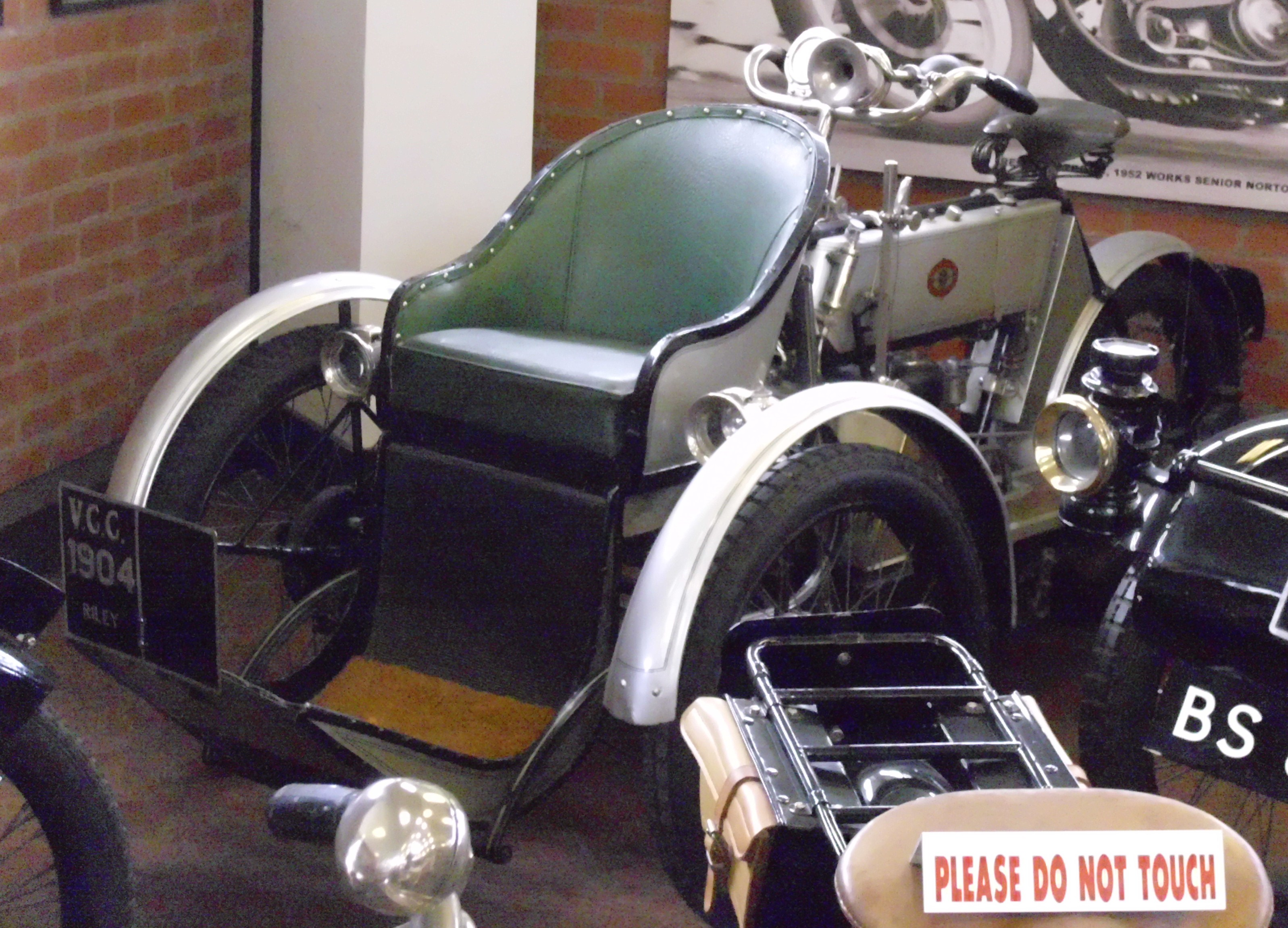 Riley 4 ½ HP Tricar 1904